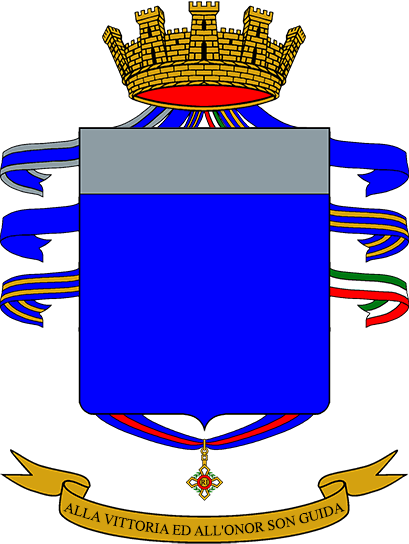 Coat of Arms of the 19° Cavalry Regiment; Italian Army.